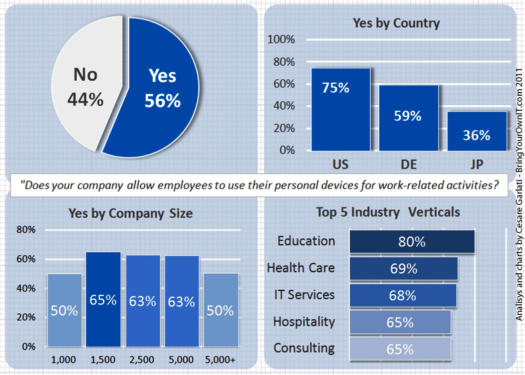 Consumerization has reached the tipping point - Data shows that the majority of companies surveyed already allow employees to use their personal devices for work-related activities. On an aggregate, 56% of the respondents say yes to Consumerization as end-users favor personal devices because easier to use, more convenient and allow them to mix personal and work. While the trend is clearly affecting organizations worldwide, not all regions have adapted at the same pace: the U.S. already lead this innovation with 75% of yes, the more conservative Japan is on the raise with 36% and Germany somewhere in between with 59%. From an industry vertical perspective, Education (80%), Health Care (69%) and Business Services (67%) are the most consumerized industries while Manufacturing (48%), Government (39%) and Utilities (36%) are slower at embracing consumer technology. Company size doesn’t seem to be a discriminating factor although mid-large organizations show higher adoption rates, up to 65% for companies with 1,500 employees.